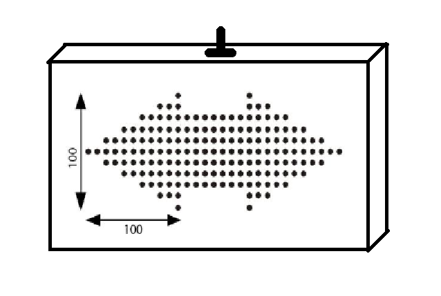 possession arrow